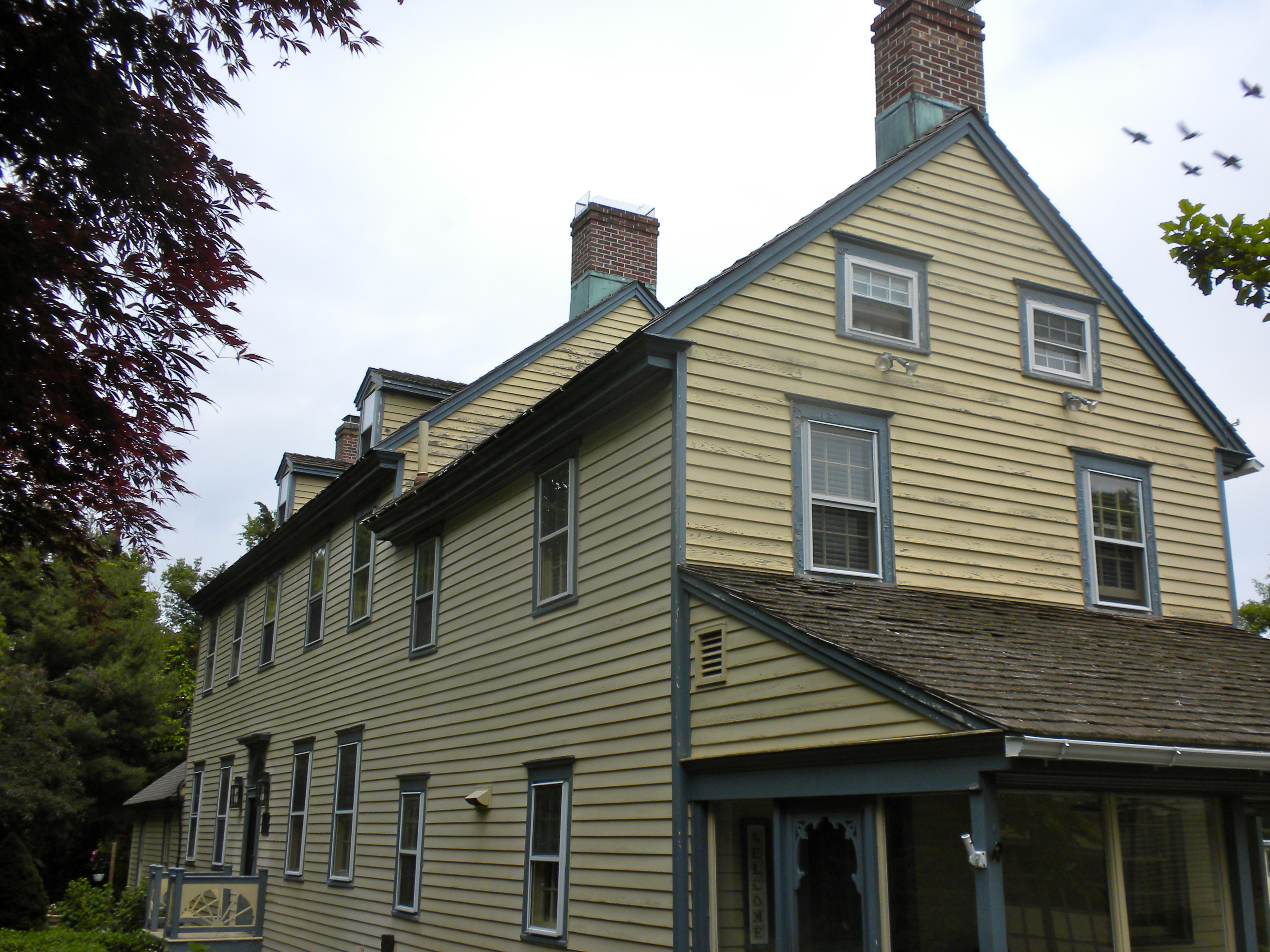 Thomas Beesley Sr. House on NRHP since December 17, 1992. At 12 Beesley's Place near but not on tip of Beesley's Point in Upper Township, Cape May County, New Jersey, USA